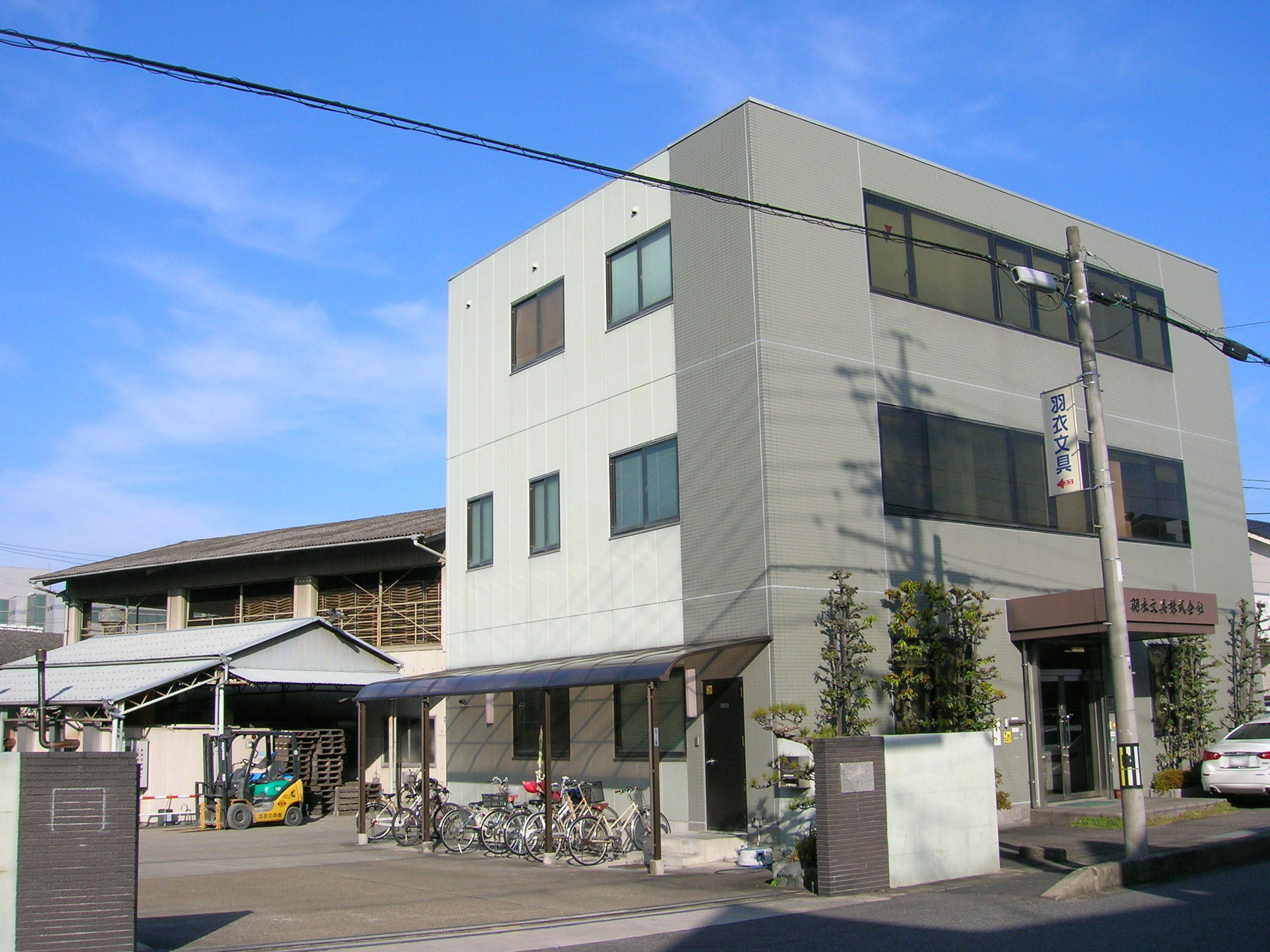 Hagoromo bungu (Hagoromo stationery), Head office and factory. It was also known chalk and blackboard manufacturers in Japan, but was out of business in 2015. Loc: Kasugai city, Aichi Prefecture, Japan. 羽衣文具、本社と工場。 撮影場所 愛知県春日井市美濃町